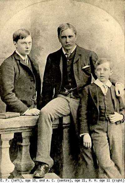 Three brothers Benson.